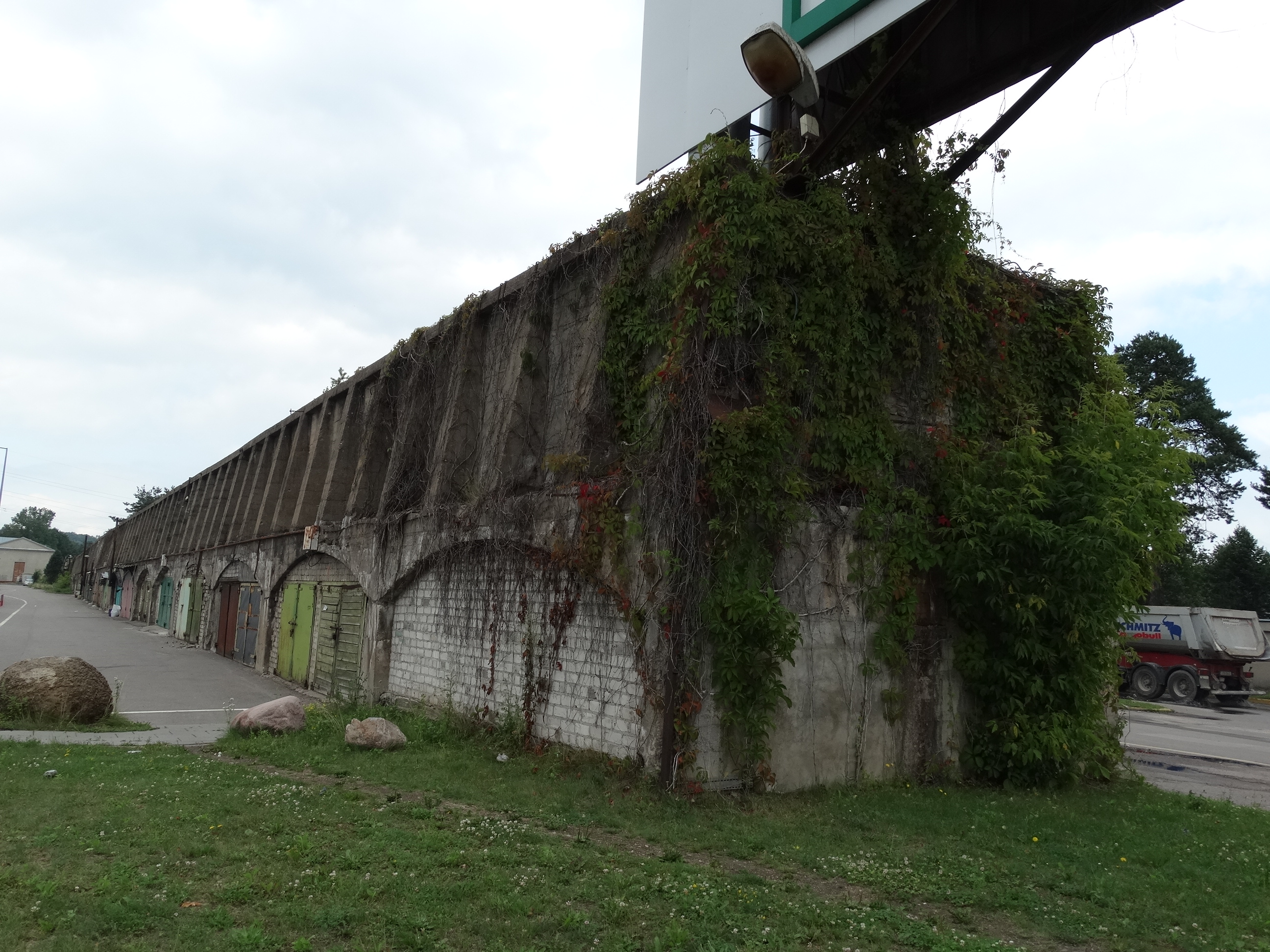 Former aqueduct (water supply), Grigiškės, Lithuania